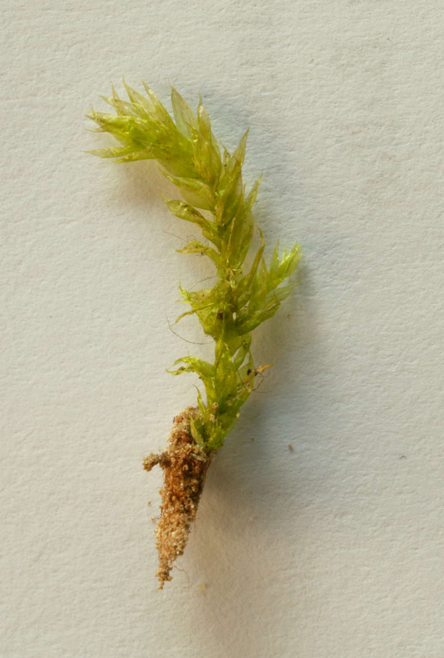 Moss on a piece of old wood, single plant